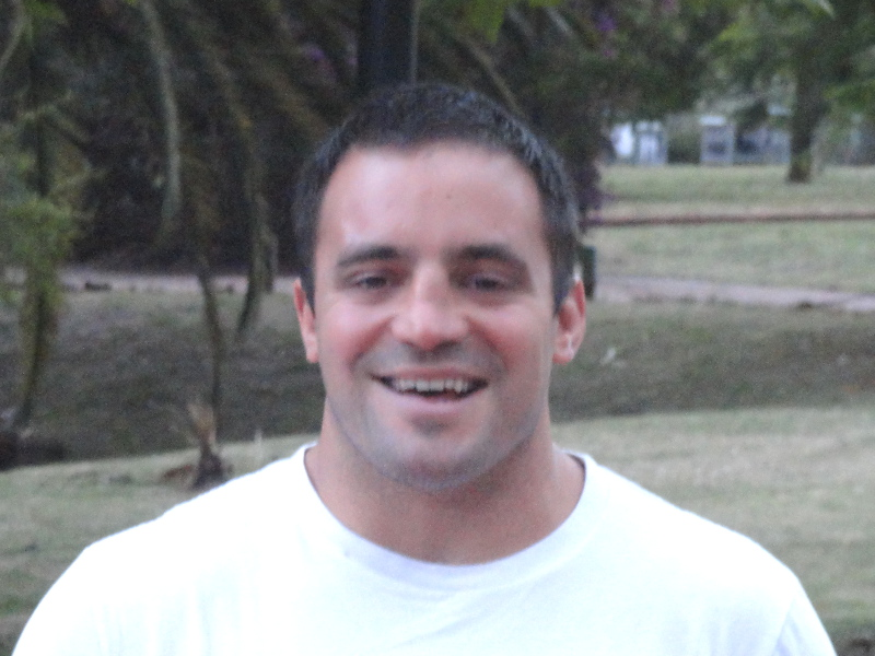 Uruguay's Teros rugby player Carlos Arboleya, photographed at the Parque Rodó in Montevideo